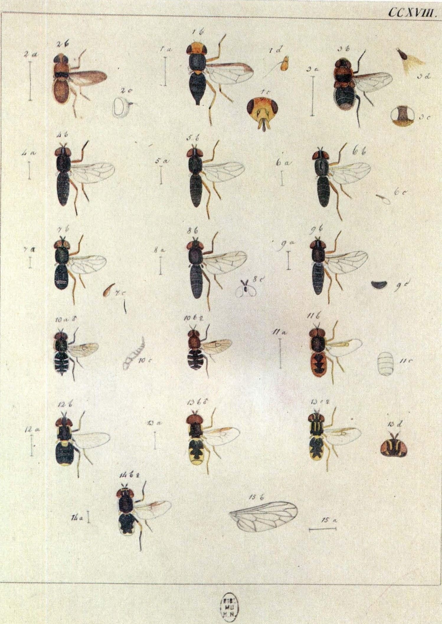 Johann Wilhelm Meigen, 1790 Abbildung der europäischen zweiflügeligen Insekten nach der Natur Von Joh. Wilh. Meigen zu Stolberg bei Aachen 1 CCXVIII text Valid names and synonyms at Catalogue of Life (Annual Checklist)and Nomenclator Types at MNHN collections database Note Europäischen Zweiflügeligen includes species described by previous authors - Linnaeus, Fallen, Wiedemann, Fabricius, Scopoli, Forster, Rossi, Macquart, Robert etc. 1 Timia erythrocephala Wiedemann, 1824 2 Gastrus jubarum Meigen, 1824 synonym of Gasterophilus pecorum (Fabricius, 1794) (accepted name) 3 Oestrus auribarbis synonym of Cephenemyia auribarbis (Meigen, 1824) 4 Scenopinus glabrifrons Meigen 1824 5 Scenopinus halteratus Meigen 1824 synonym of Scenopinus glabrifrons Meigen 1824 6 Scenopinus sulcicollis Meigen 1824 synonym of Scenopinus fenestralis (Linnaeus 1758) 7 Scenopinus vitripennis Meigen 1824 8 Scenopinus rugosus Fabricius 1794 9 Scenopinus orbita Meigen 1824 synonym of Scenopinus glabrifrons Meigen 1824 10 Clitellaria villosa synonym of Nemotelus villosa Fabricius, 1794 11 Stratiomys felina Stephens, 1829 synonym of Odontomyia angulata (Panzer, 1798) 12 Oxycera leonina(Panzer, 1798) 13 Oxycera pardalina Meigen, 1822 14 Oxycera pygmaea(Fallén, 1817) 15 Xestomyza chrysanthemi (Fabricius, 1787)synonym of Chrysanthemyia chrysanthemi (Fabricius, 1787